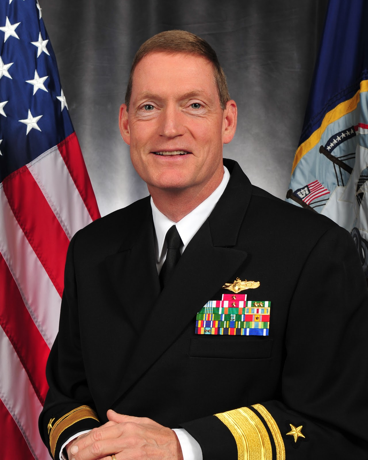 Rear Admiral Edward H. Deets, III, Vice Commander, Naval Network Warfare Command